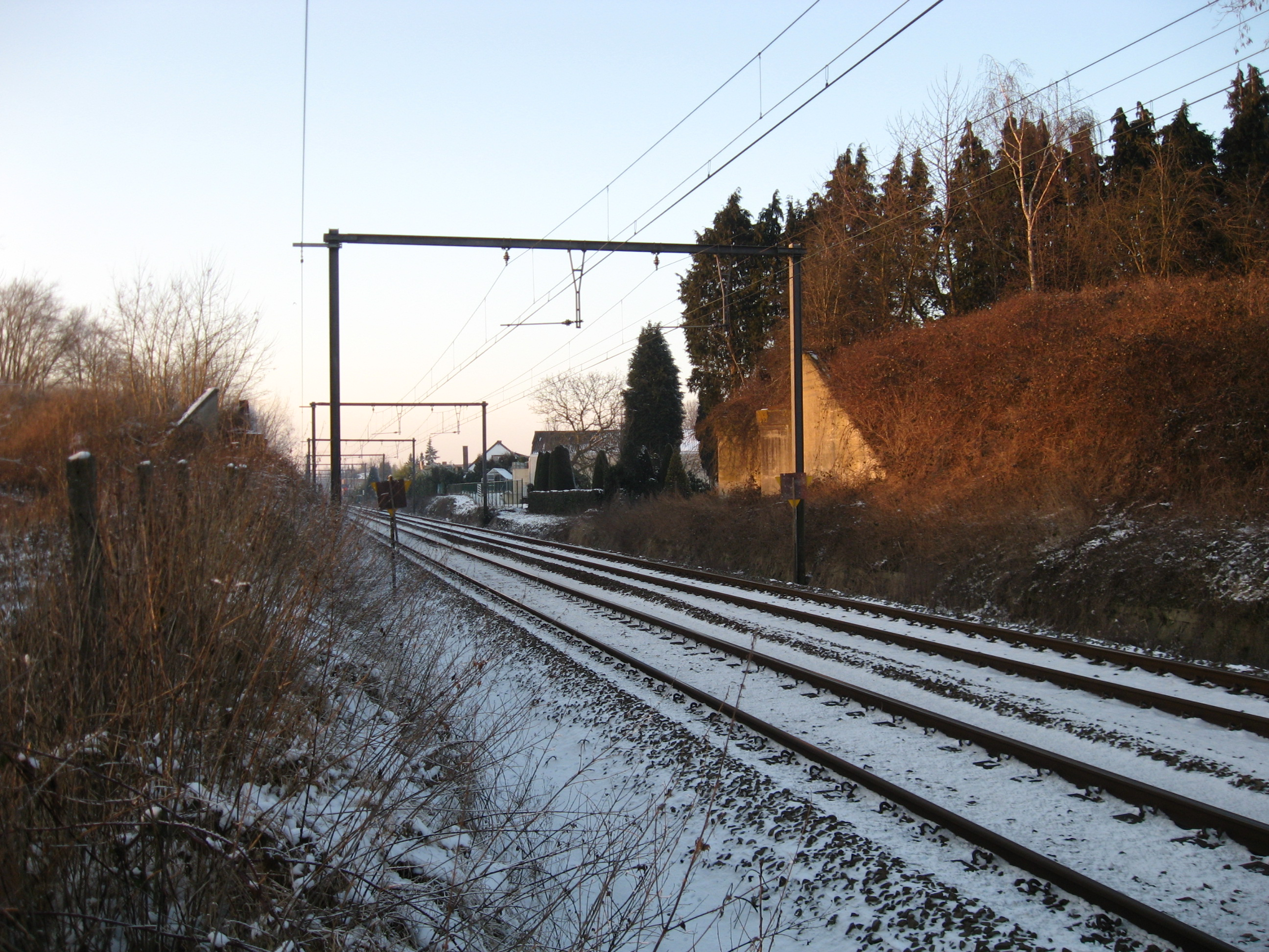 The bridgeheads of vicinal railway Brussels Aalst are visible. The bridge is removed. This is over the railway line Brussels Dendermonde. On the right there is the embankment of the vicinal railway.